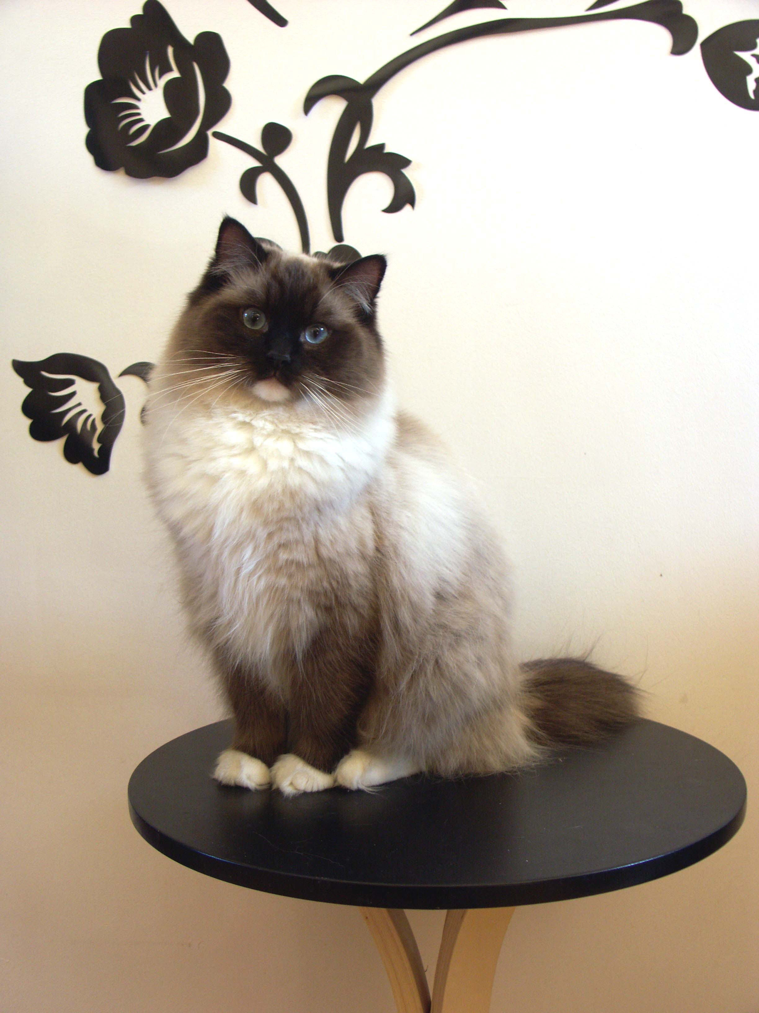 Female ragdoll seal mitted